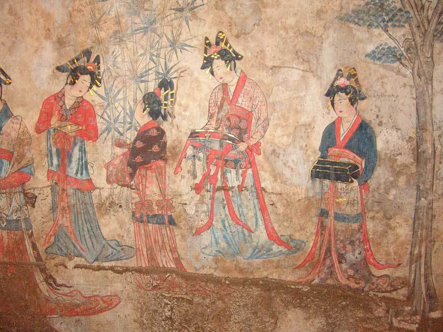 Pao-shan Tomb Wall-Painting of Liao Dynasty: A Love Poem. 文言: 「丁寧織寄迴文錦，表妾平生繾綣心」，墨書題詩於寳山遼墓壁畫之寄錦圗。